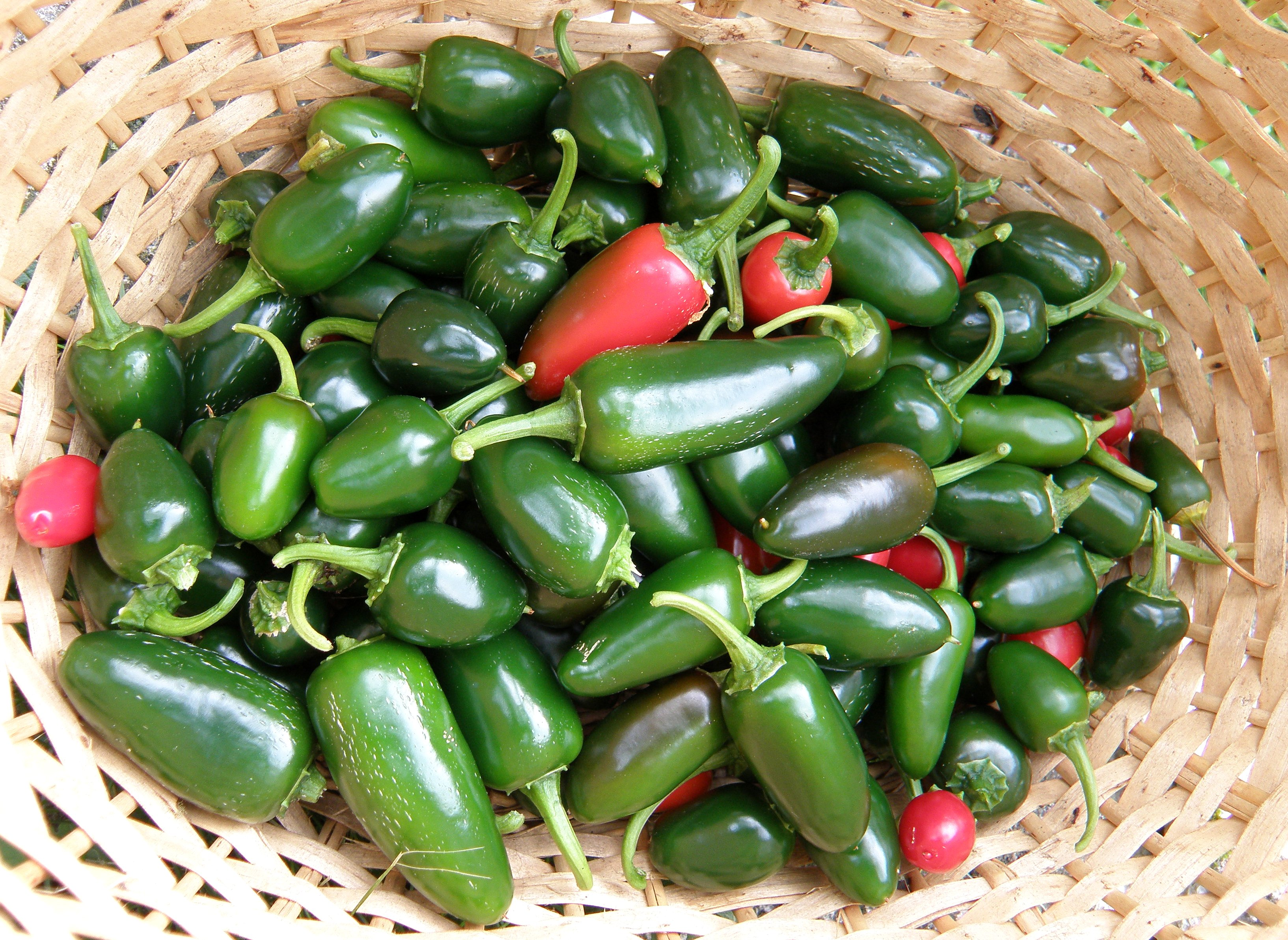 Jalapeño